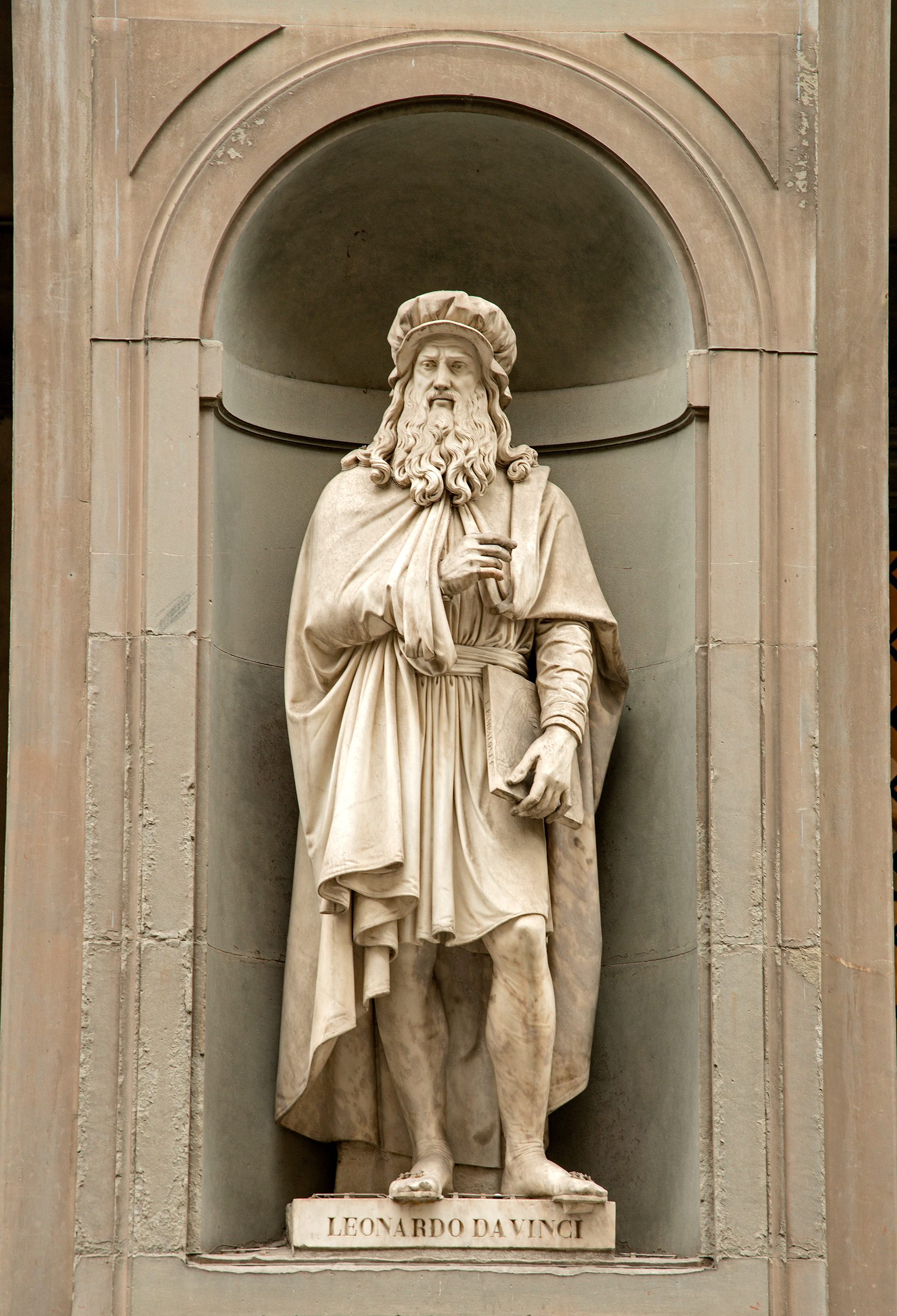 Created by by Luigi Pampaloni